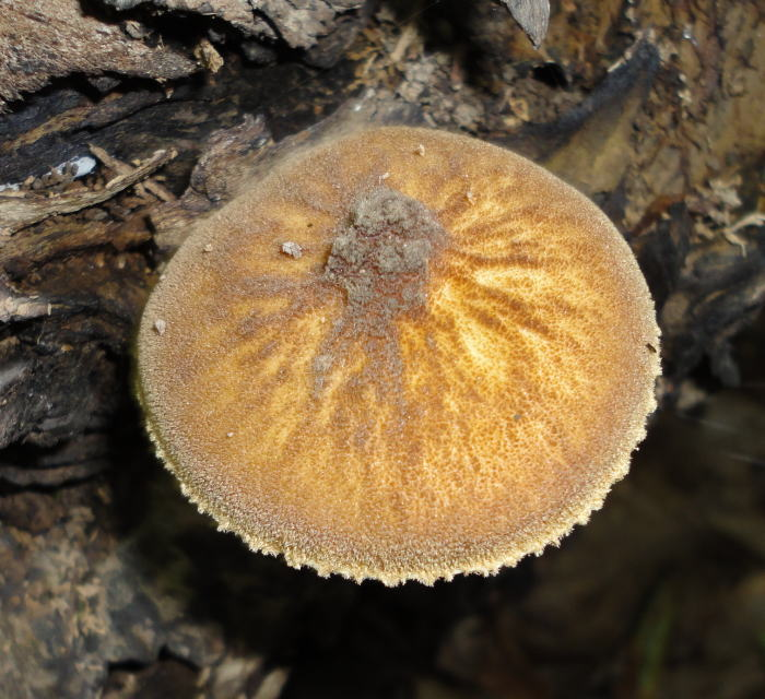 Pluteus umbrosus For more information about this, see the observation page at Mushroom Observer.